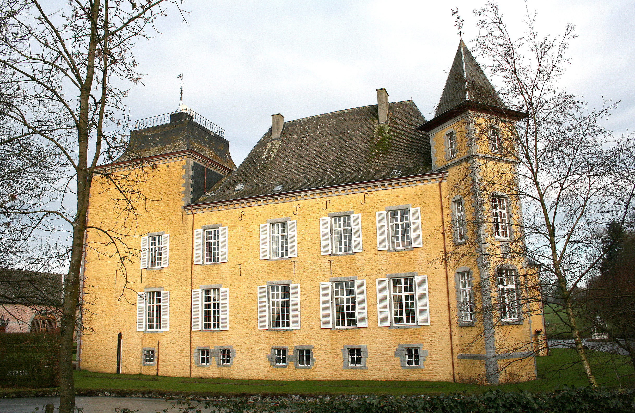 Haversin (Belgium), the castle (XVIIth century).